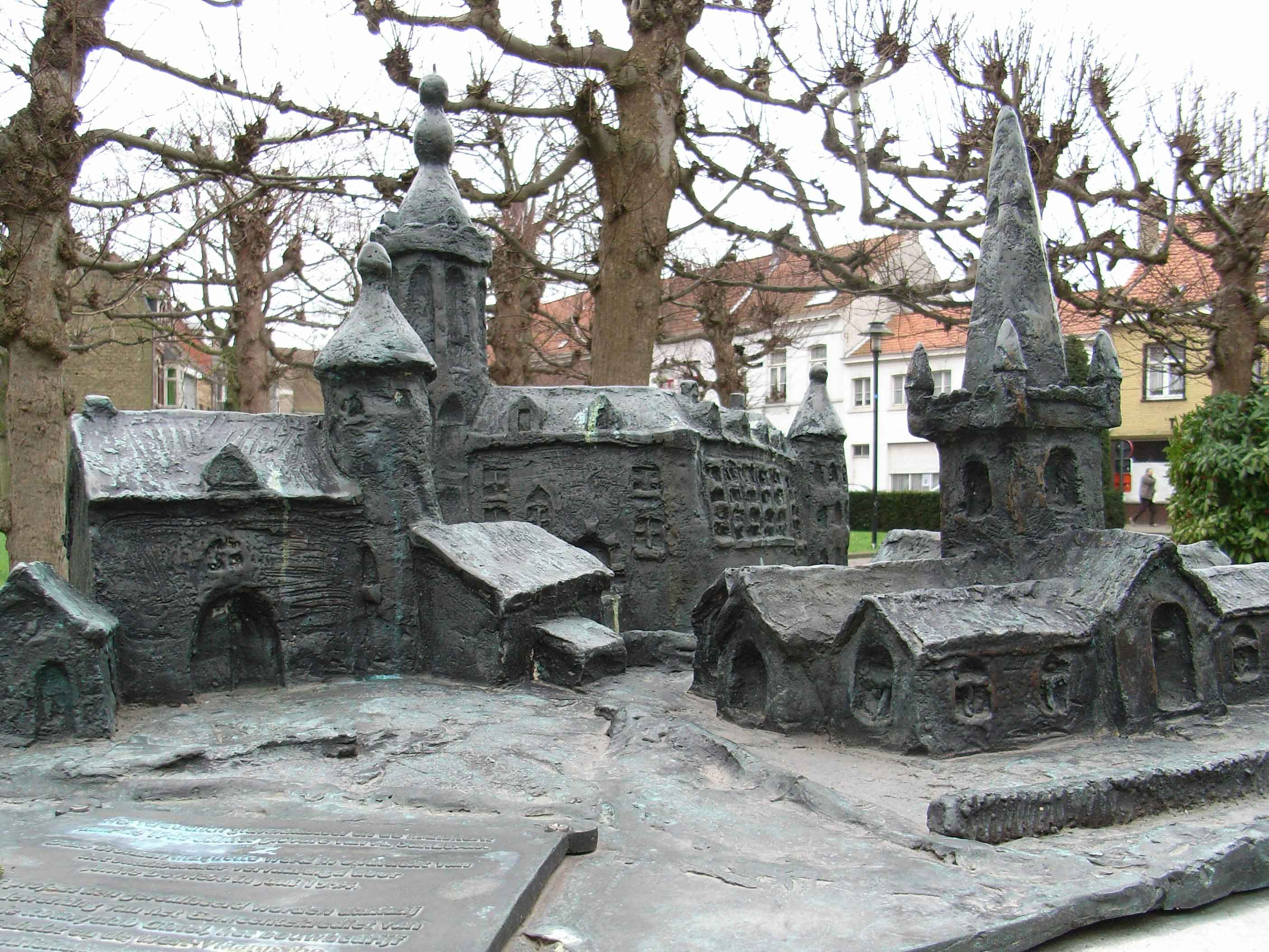 Bronze Scale Model (by raj kapadia) of Medieval Gistel, Belgium